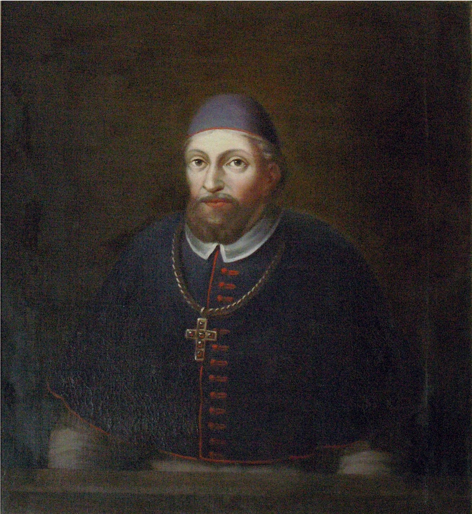 Varniai church, Merkelis Giedgaitis, Lithuania